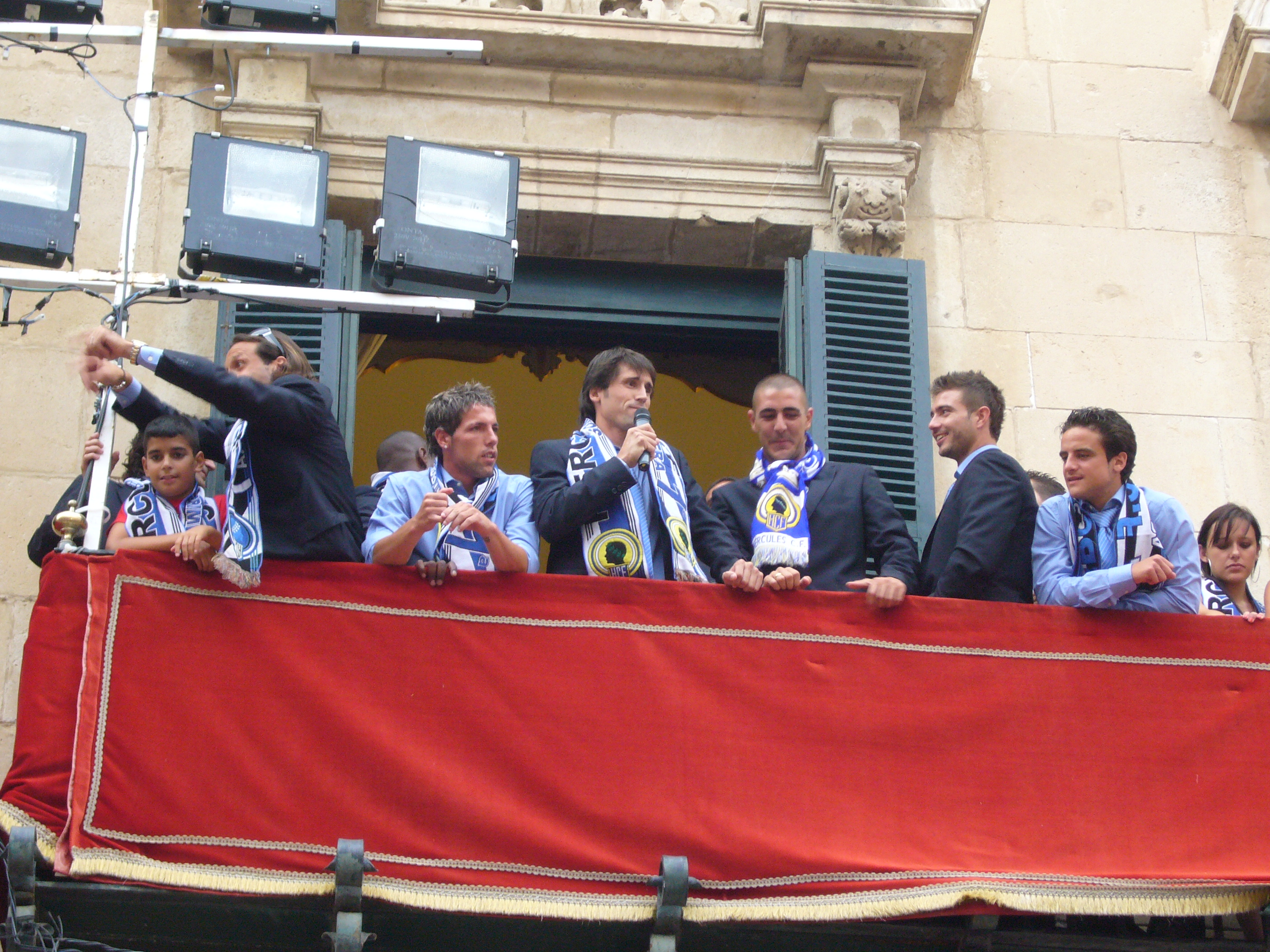 Sendoa Agirre (with microphone in hand) on the balcony of the City of Alicante during the celebrations of the rise of Hércules C. F. to First division in 2009/10 season.